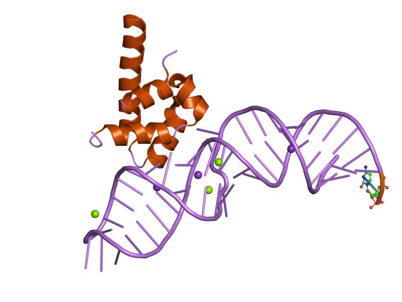 Cartoon representation of the molecular structure of protein registered with 1hq1 code.